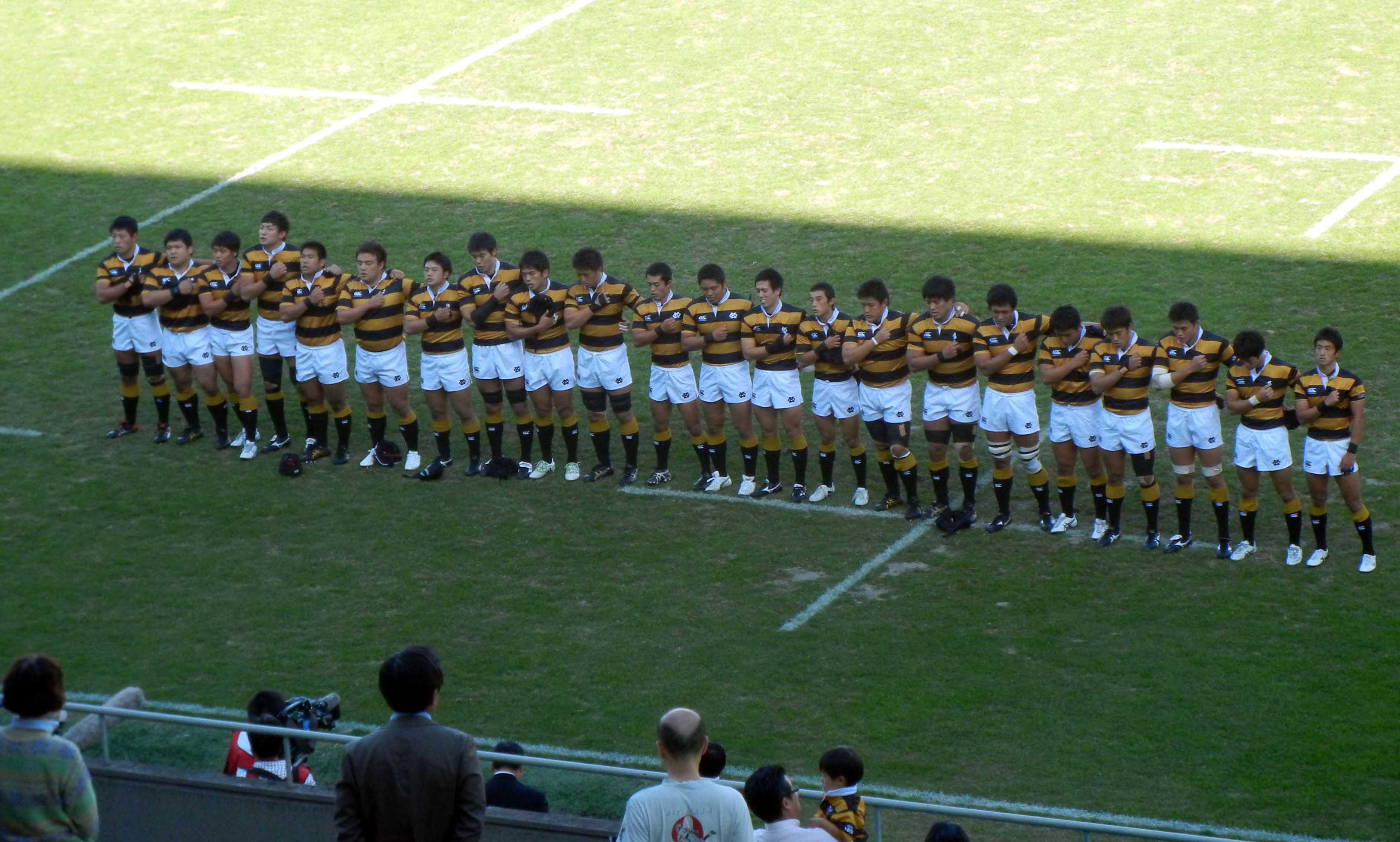 Keio University Rugby Football Club Players